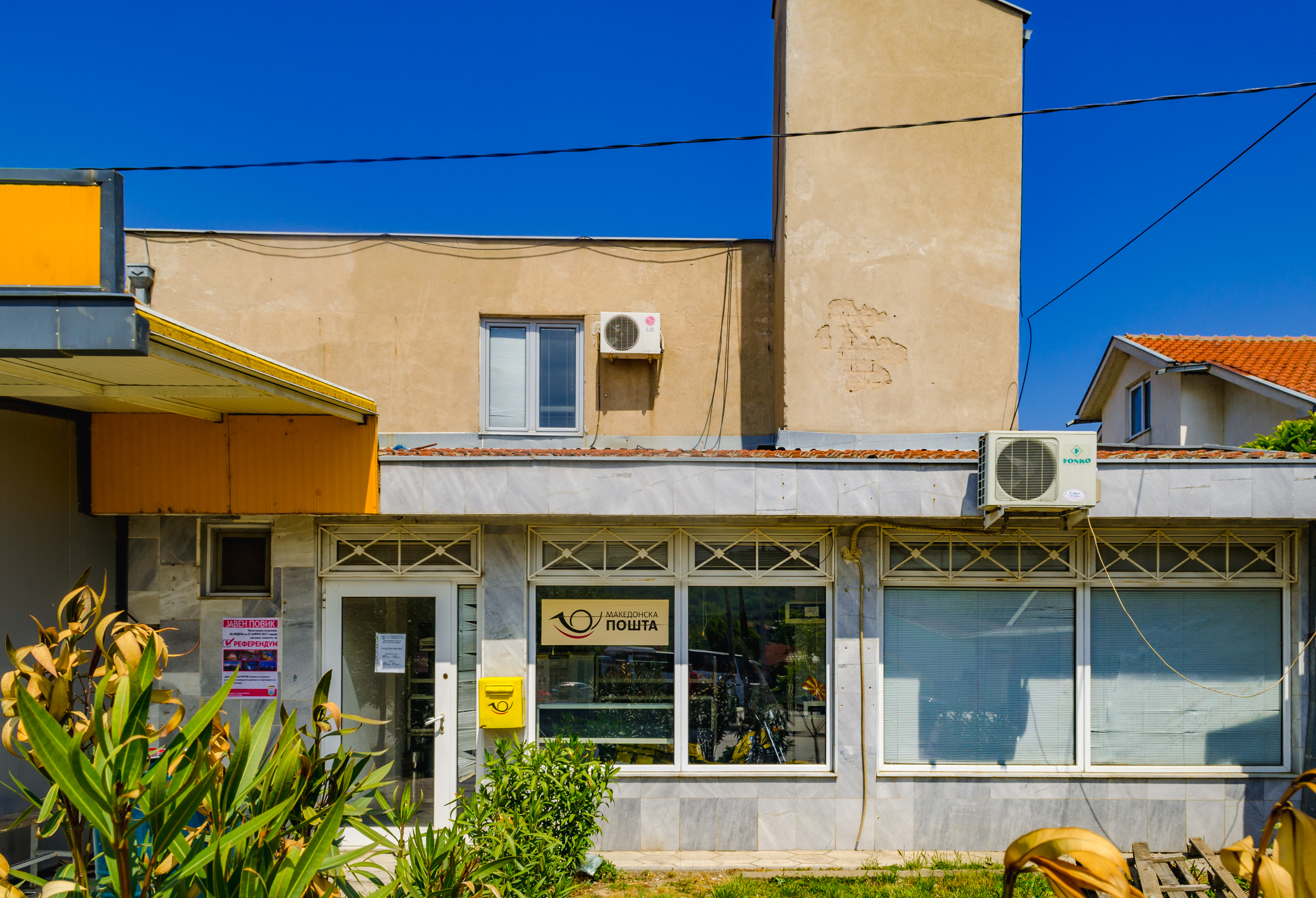 Post office in the village Negorci